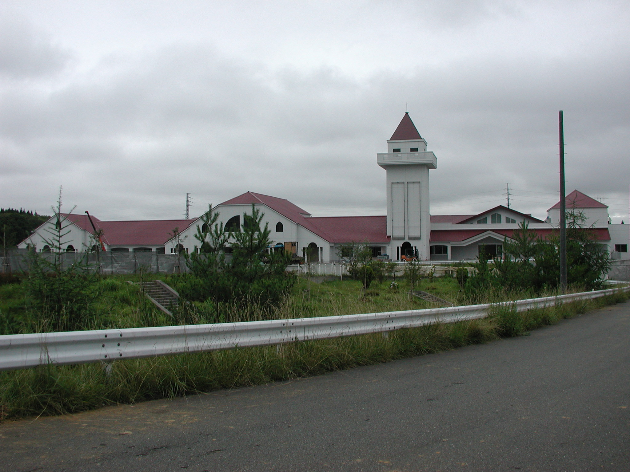 Mutsu City Office on New